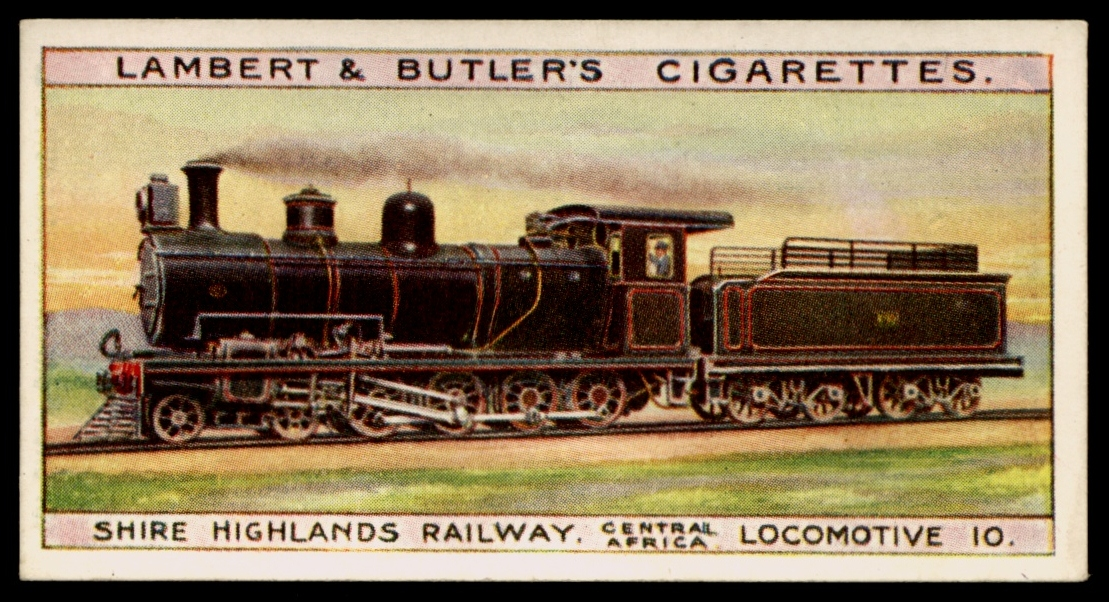 Shire Highlands Railway, Nyasaland Protectorate 4-8-0 locomotive on Lambert & Butler's Cigarettes "World's Locomotives" card (No 41 of 50 issued in 1912)